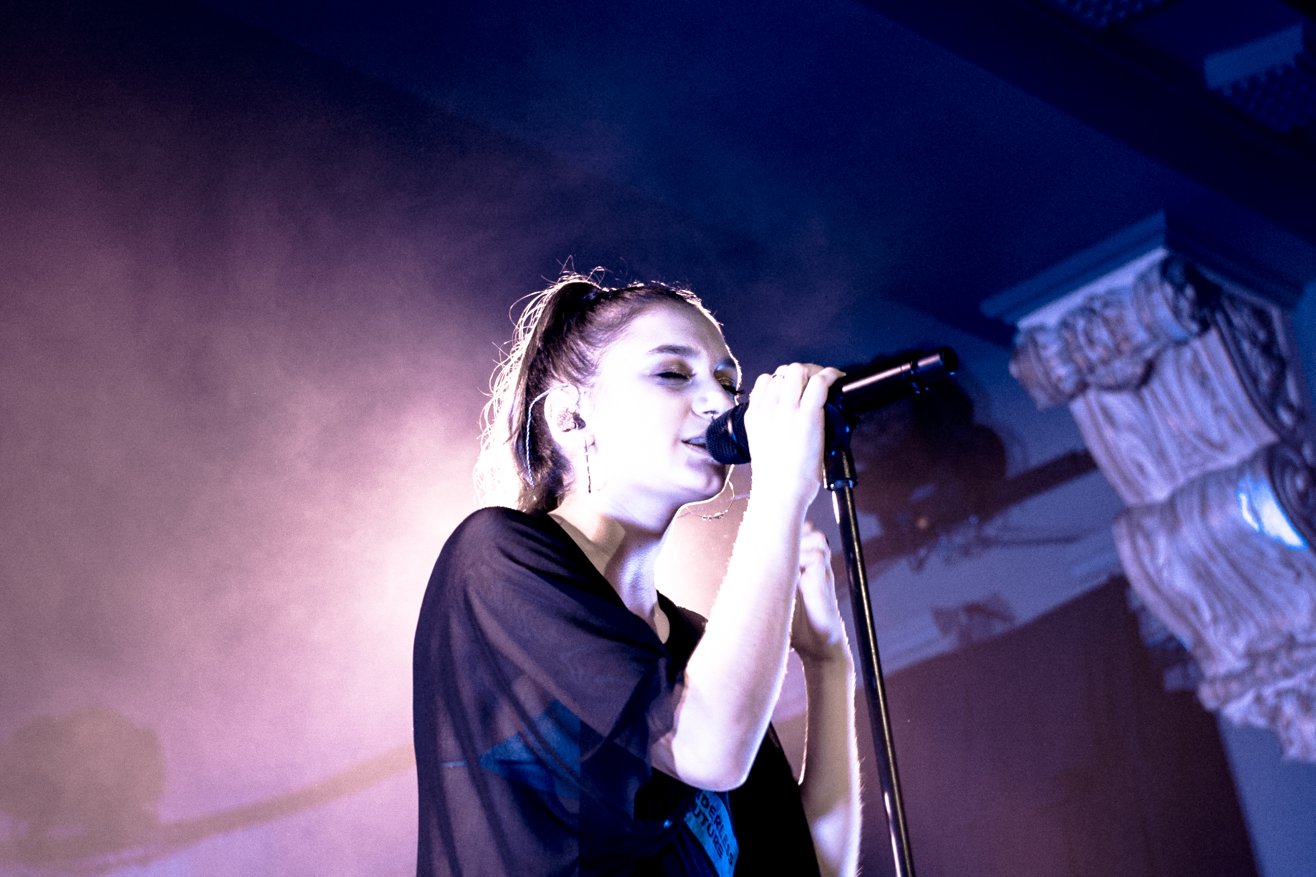 Action shot of Daya (the pop singer) singing at her concert in San Francisco